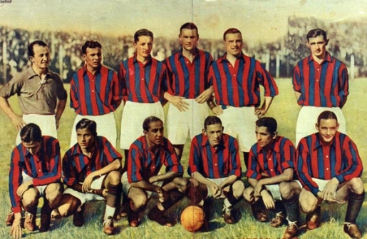 The San Lorenzo de Almagro team that won the 1933 Primera División title.